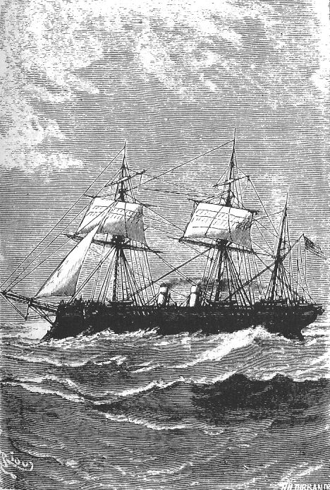 An illustration from Jules Verne's novel "Twenty Thousand Leagues Under the Sea" (1866-69) drawn by George Roux.